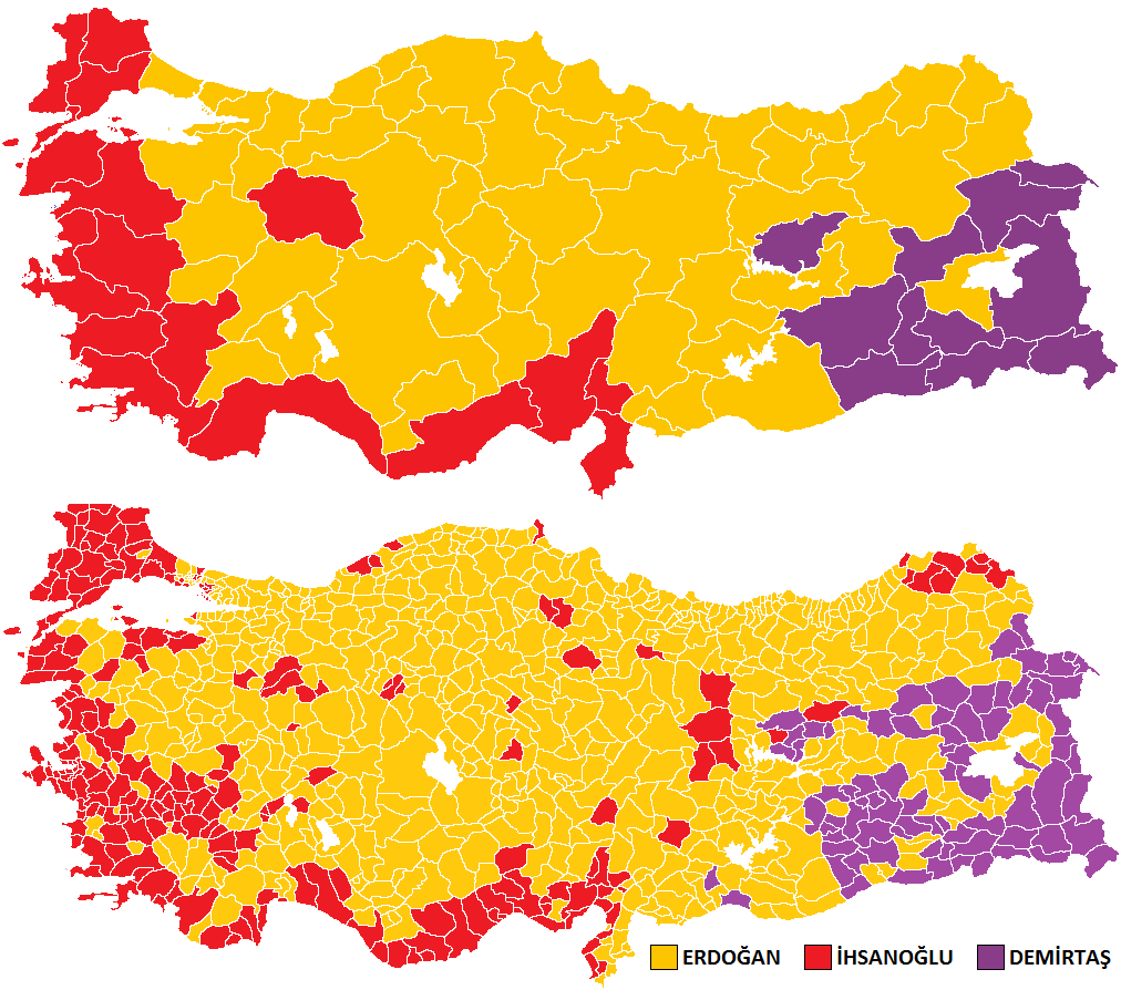 Map showing the winners by province (top) and by district (bottom) of Turkish presidential election, 2014